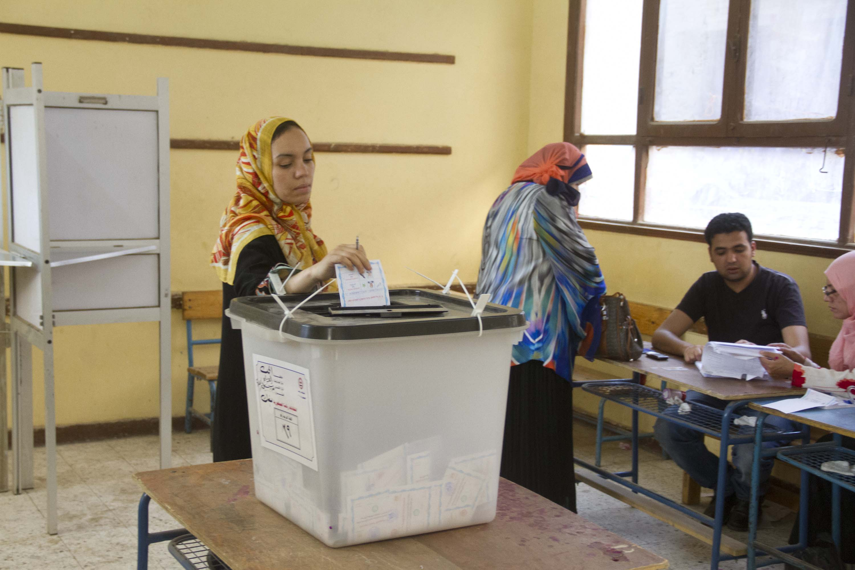 Original description: "Women vote in Cairo, May 27, 2014. (Hamada Elrasam /VOA)"